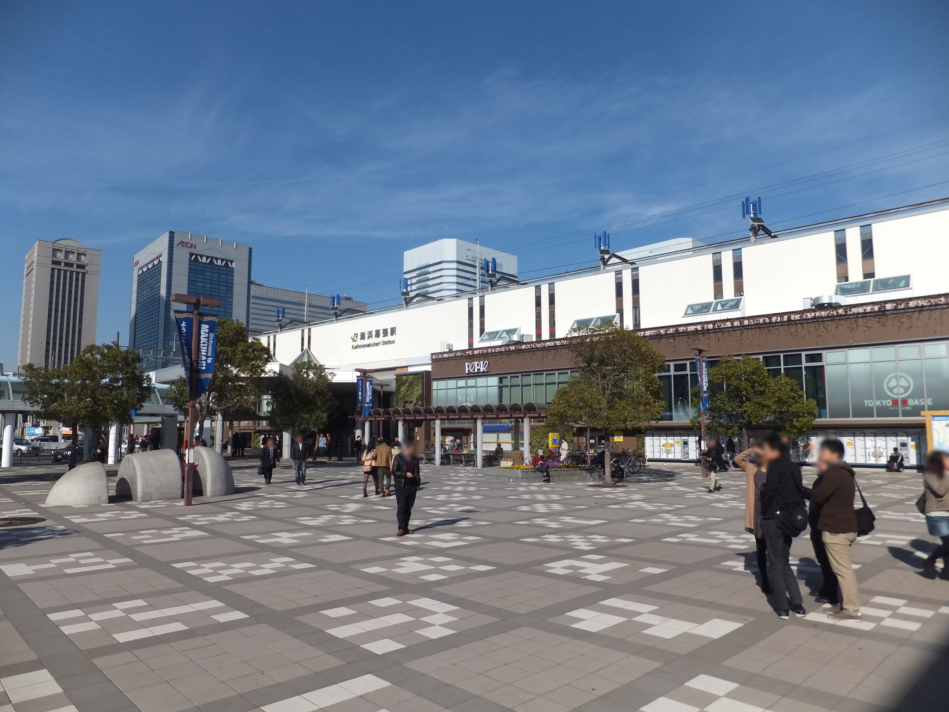 Kaihimmakuhari (Kaihin-Makuhari) Station on the Keiyo Line, Chiba, Japan